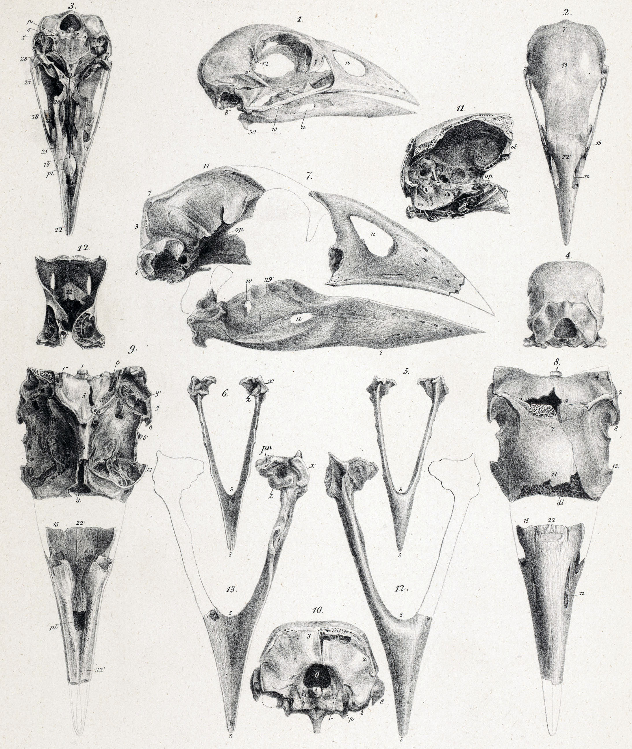 Plate XLVII Fossil cranial remains of P. mantelli (7-13) compared to those of a smaller, extant member of Porphyrio